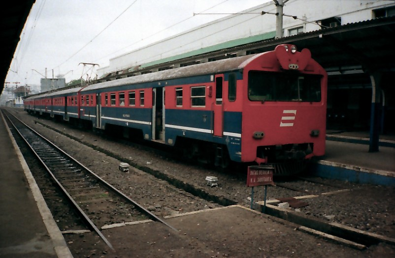 The first EMU for independent Indonesia, imported from Japan in 1976. At Jakarta Kota station.